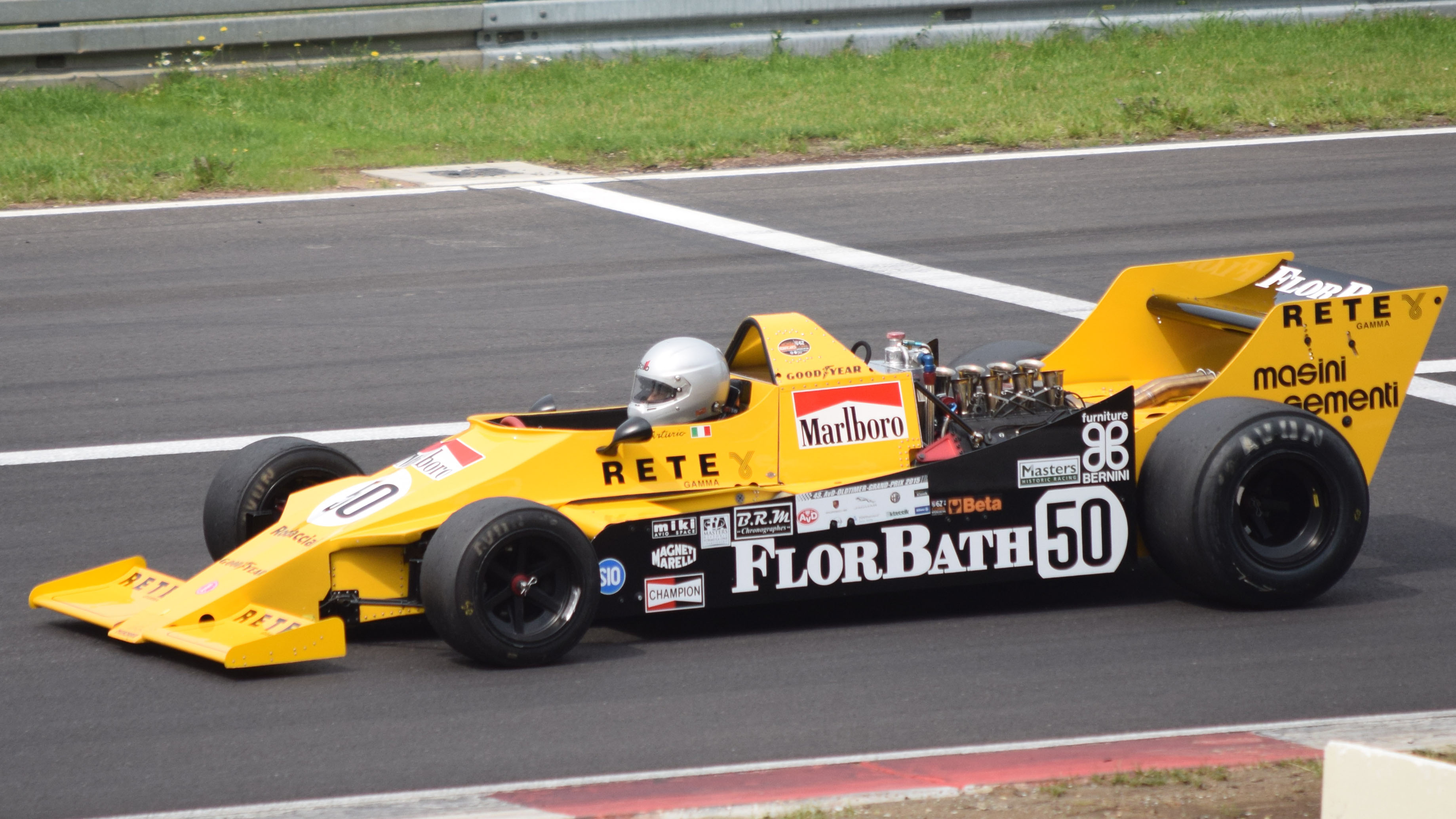 Merzario A2 (1979) at the Nürburgring